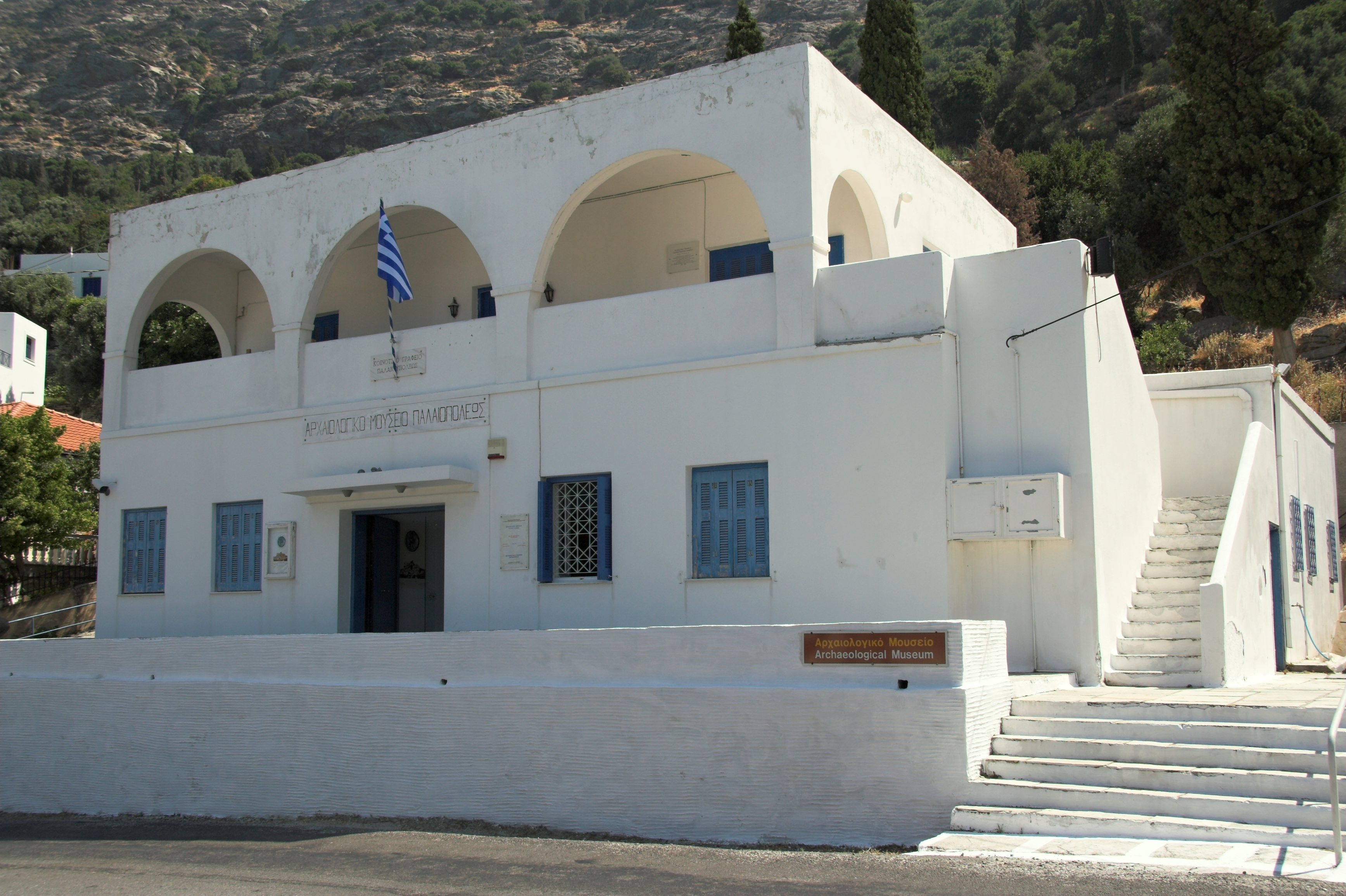 Building of the Archaeological Museum in Paleopolis on Andros. Archaeological Collection of Palaiopolis. More precisely: Archaeological Collection of Palaiopolis.